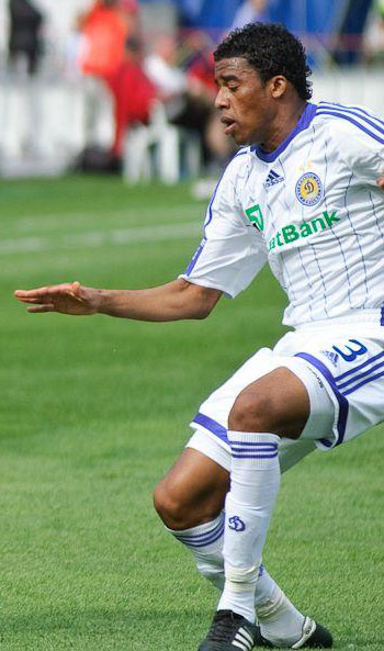 Betão, Brasilian footballer, during the game for Dynamo Kyiv